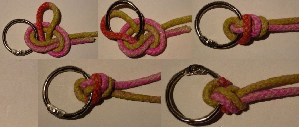 Steps in tying a palomar knot. (Tied and photographed by me.)